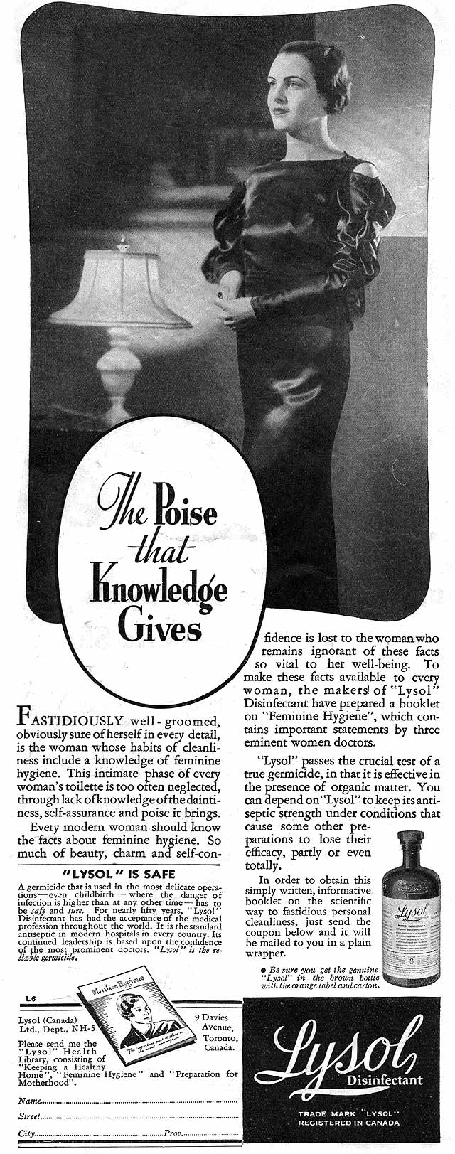 An advertisement for Lysol from 1935, which was also used at the time as a feminine hygiene product.